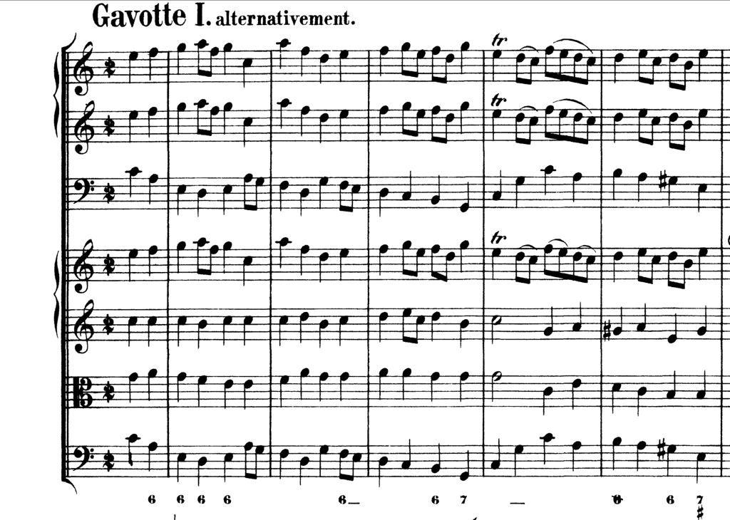 First bars of Gavotte I from Orchestral Suite No.1 by J. S. Bach.